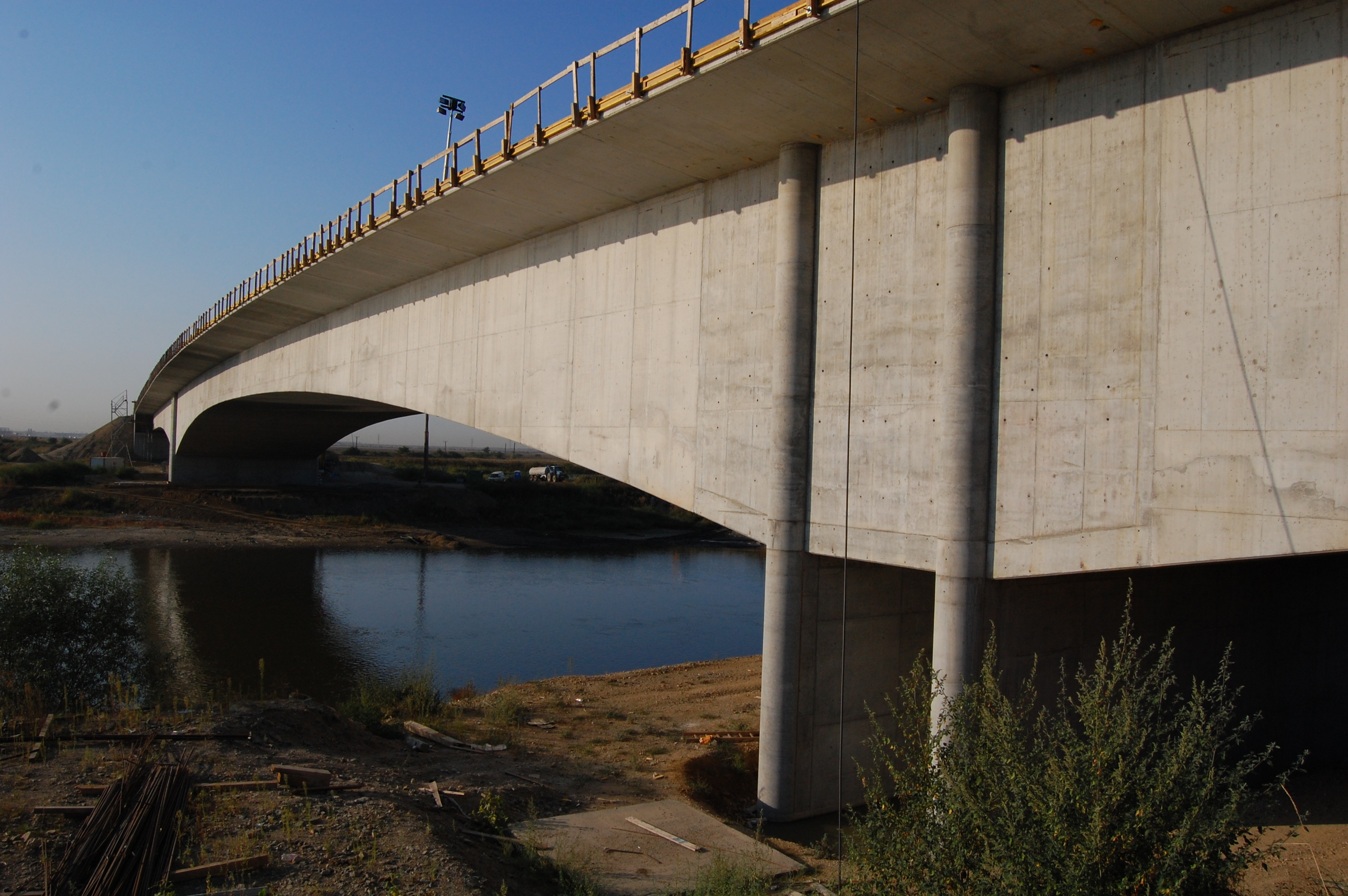 A1 Arad bypass - Mureş bridge under construction